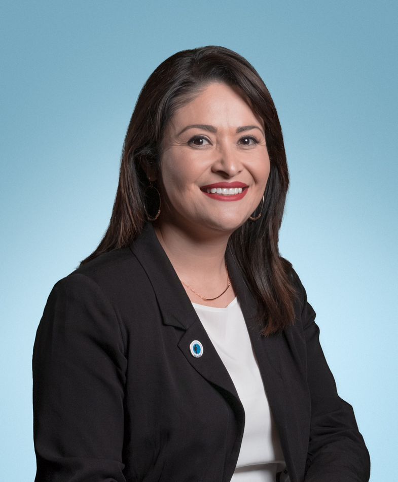 Portrait of Seattle City councilmember Lorena González